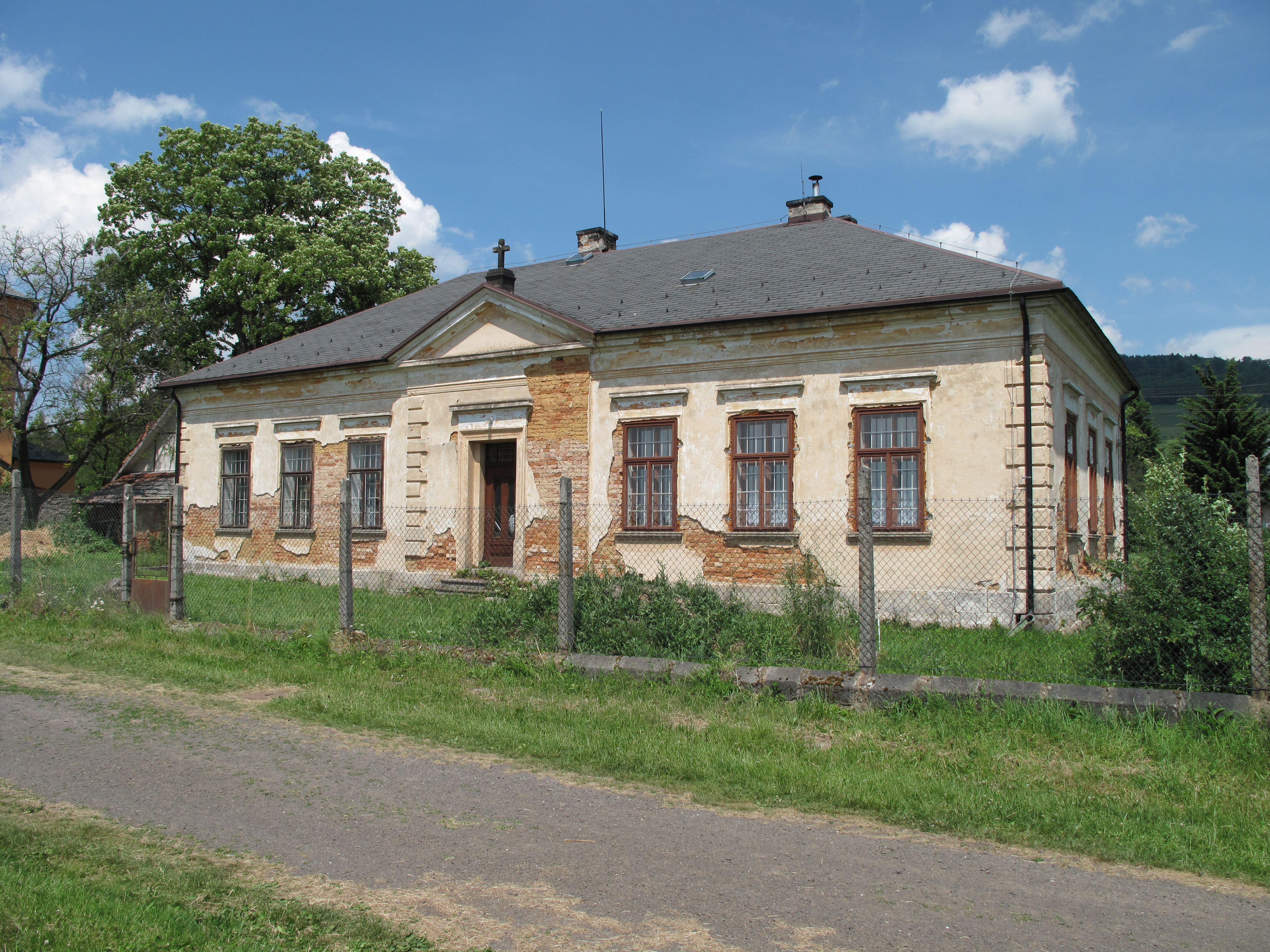 Rectory in Tatobity village, Semily District, Czech Republic.